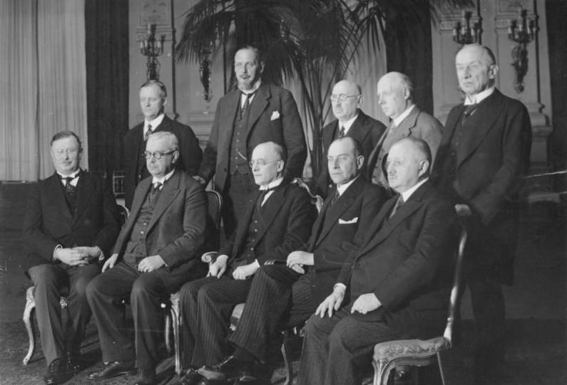 Information added by Wikimedia users.Kabinett Brüning I 30. März 1930 – 10. Oktober 1931